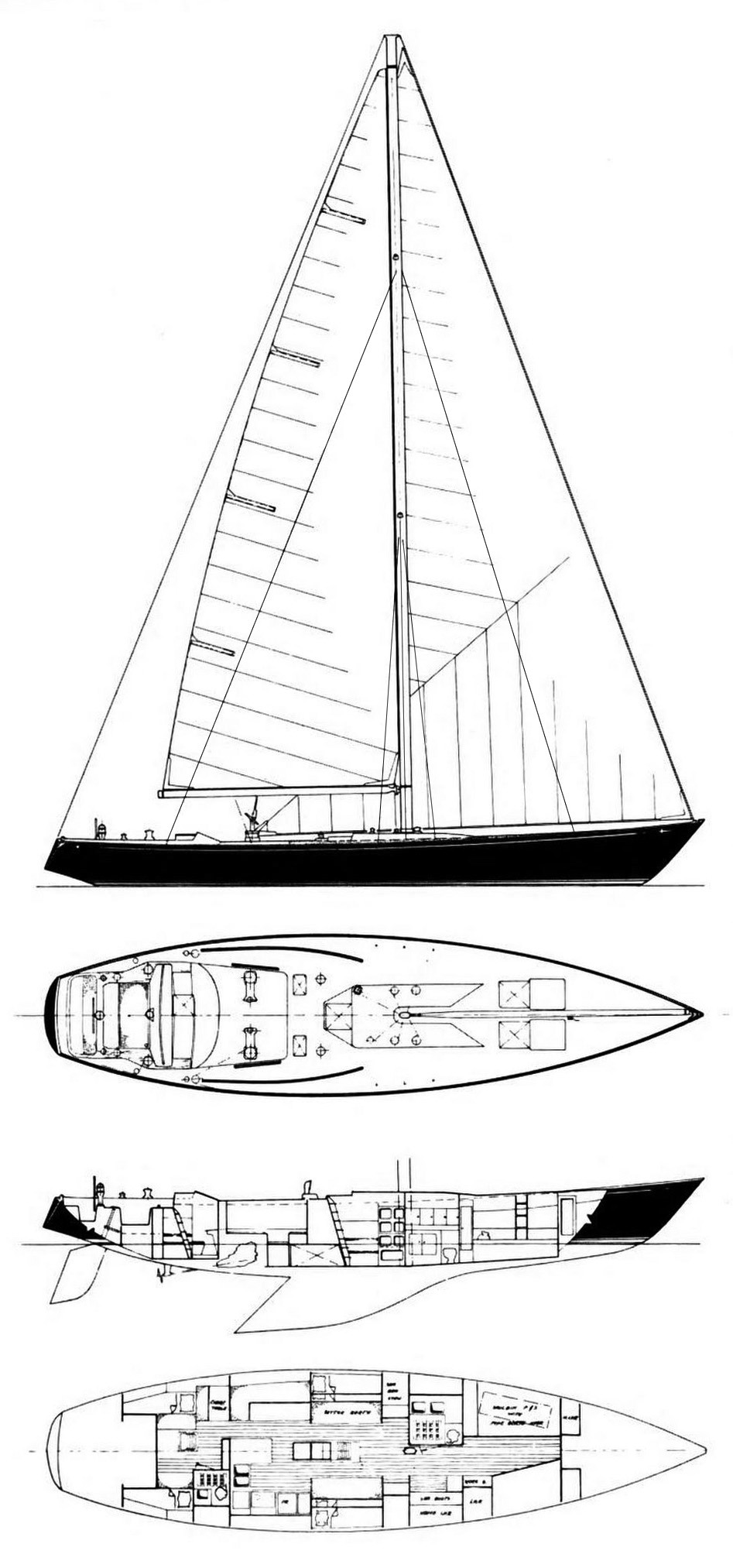 The C&C 61 is a Canadian sailboat, that was designed by Cuthbertson & Cassian and first built in 1970. The boat was built by C&C Yachts, at Erich Bruckmann's custom shop at Bronte, Ontario, Canada, starting in 1970. The preliminary lines, sail plan, and accommodation drawings were completed in 1968